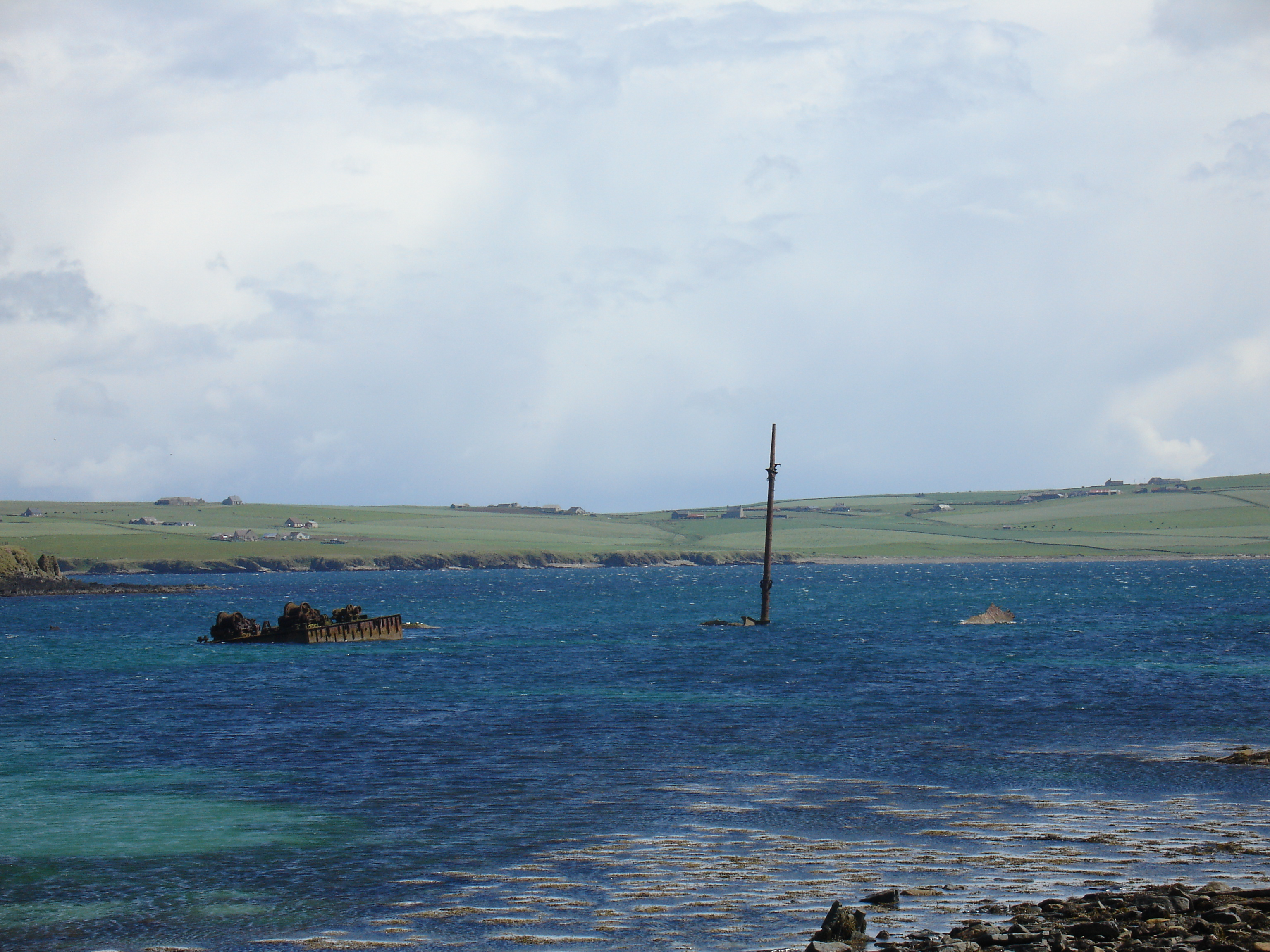 Remains of blockships sunk in Skerry Sound, Orkney Islands. This passage is now completely blocked by Churchill Barrier 2.